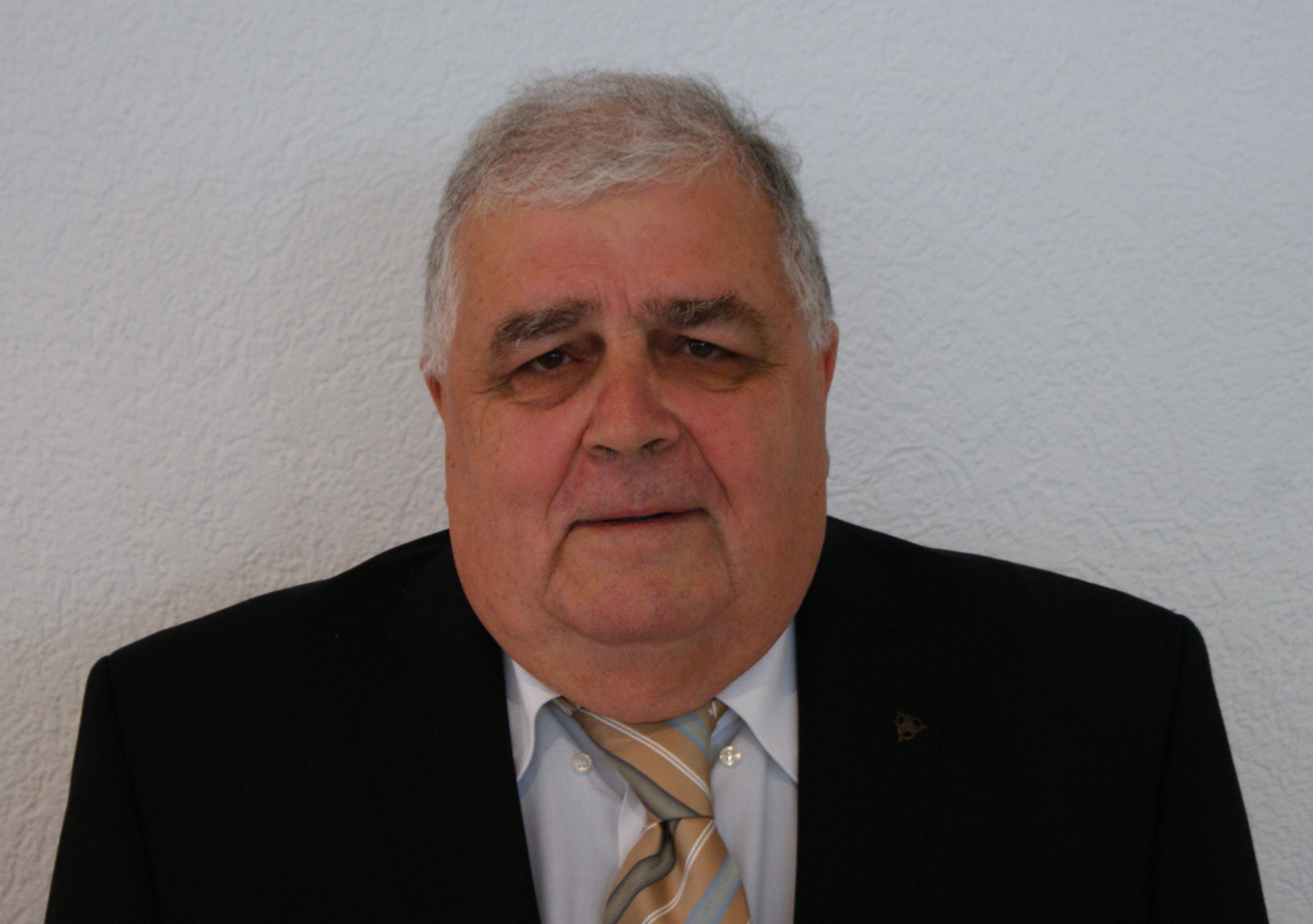 70th Anniversary Celebration of the Pensioners' Association Vorarlberg (Pensionistenverband Vorarlberg) at the Ramschwagsaal in Nenzing on 4 October 2019. Manfred Lackner is President of the Pensioners' Association Vorarlberg (from 4 October 2019) and Social Officer of the Pensioners' Association of Austria.